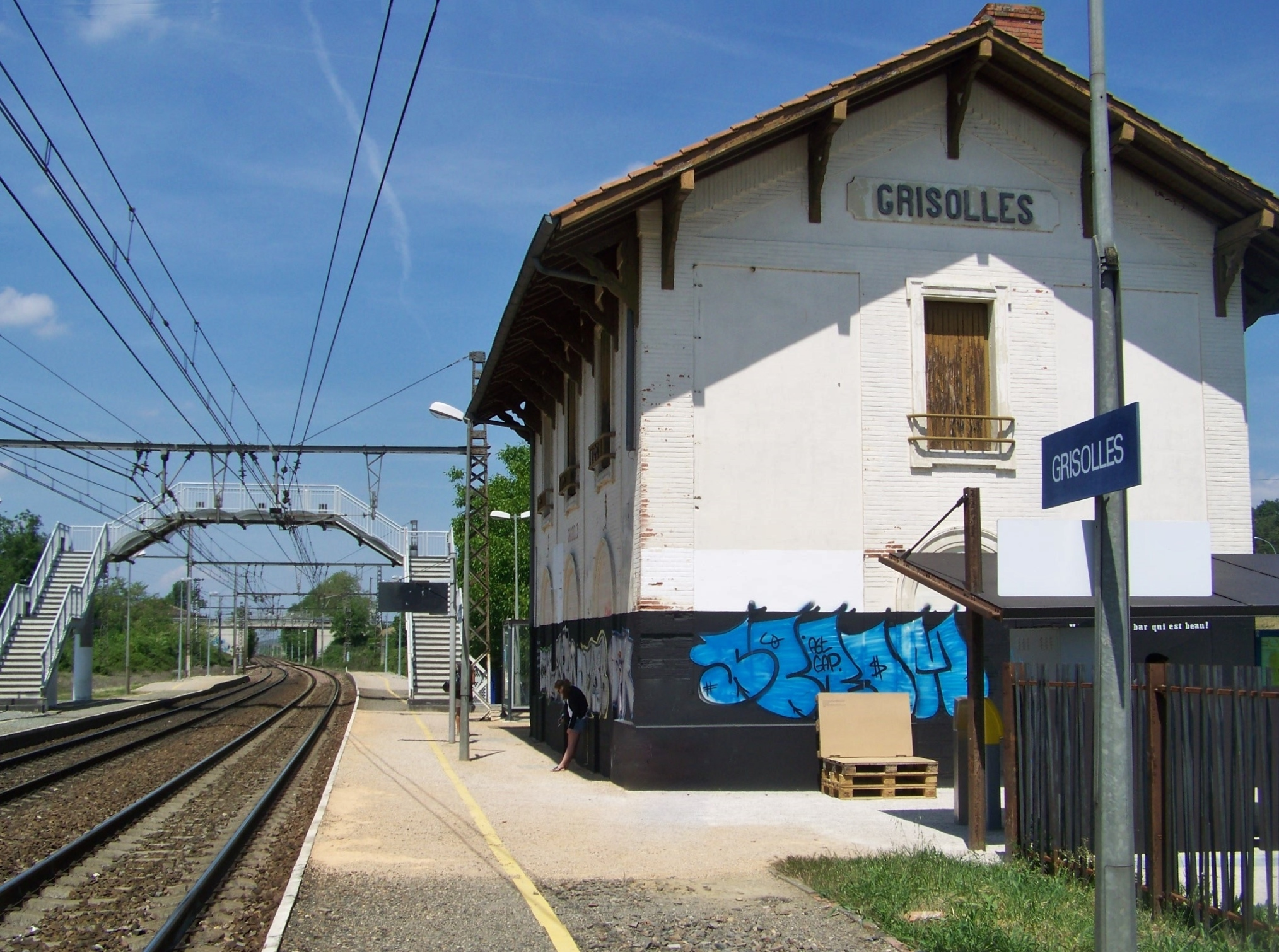 Sight of the platforms, tracks and building of the city of Grisolles railway station (in Tarn-et-Garonne), between Toulouse and Montauban.